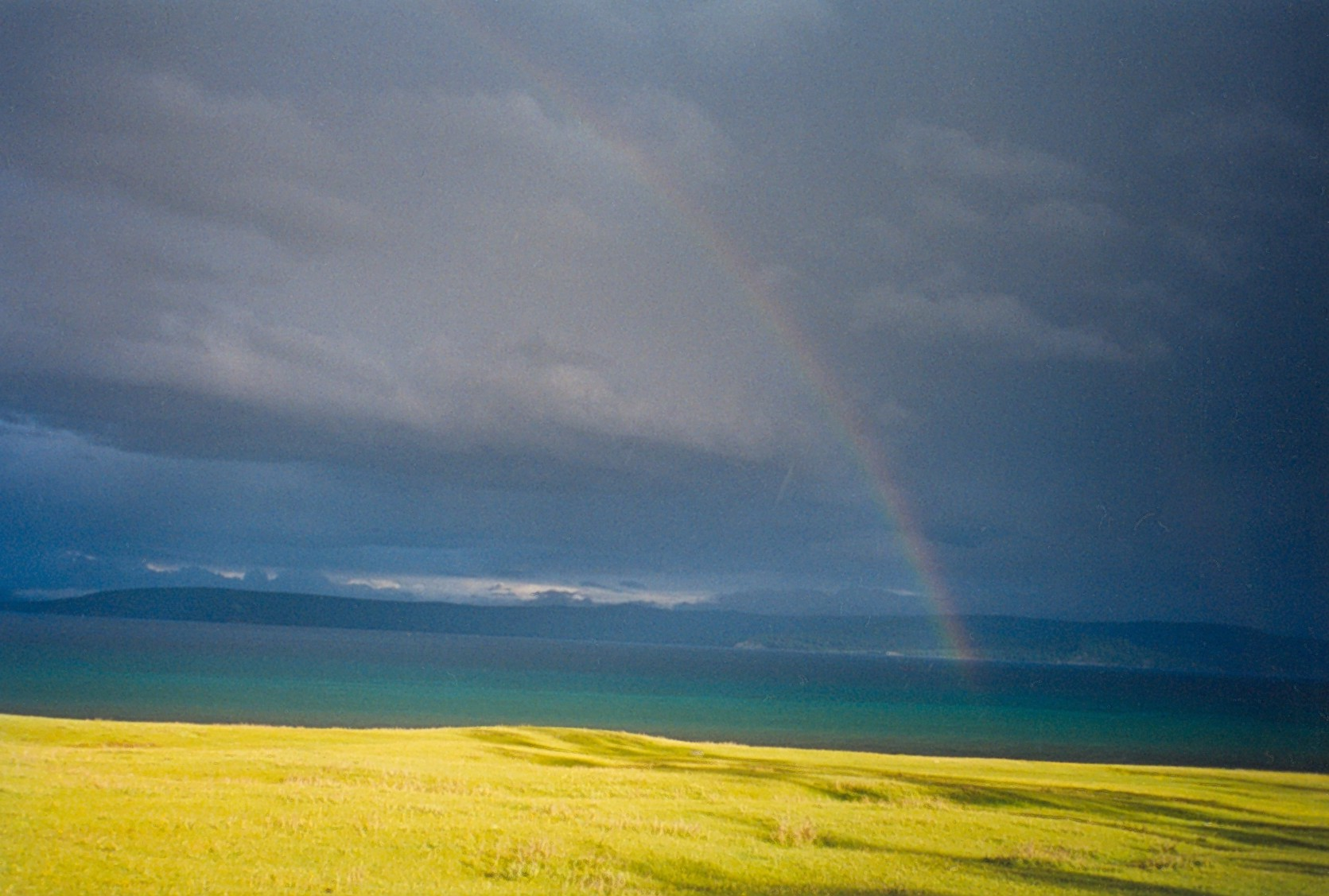 Rainbow at Lake Khövsgöl, Mongolia.